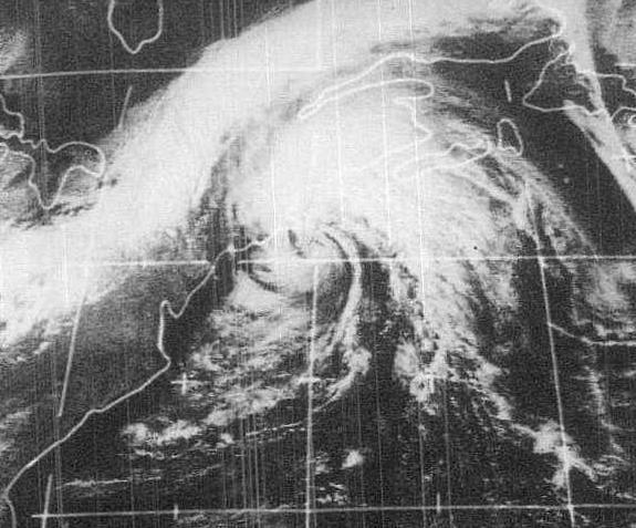 Satellite image of Tropical Storm Carrie just before becoming extratropical near Massachusetts